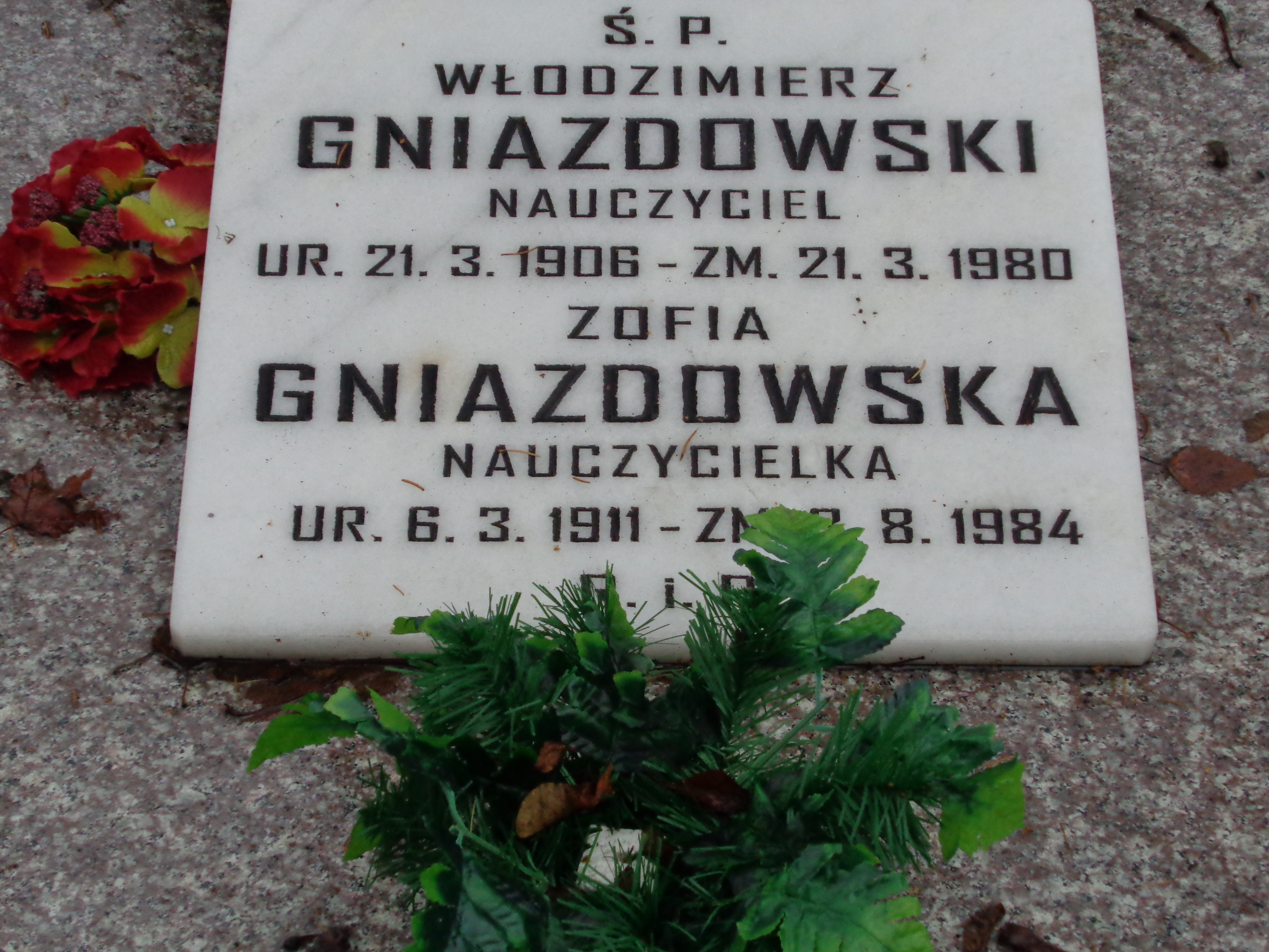 Plaque of teachear and theaters initiator Włodzimierz Gniazdowski (1906-1980) and his wife, teacher Zofia Gniazdowski (1911-1984) on Communal Cemetery in Włocławek. They were buried in monumental grave of Policzkowski family, built in 1900 year.